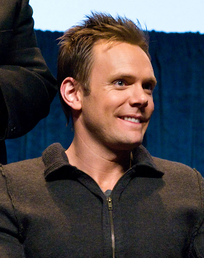 Joel McHale at a panel for Community at PaleyFest 2010.